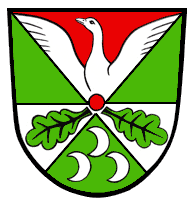 Coat of Arms of Hohengandern